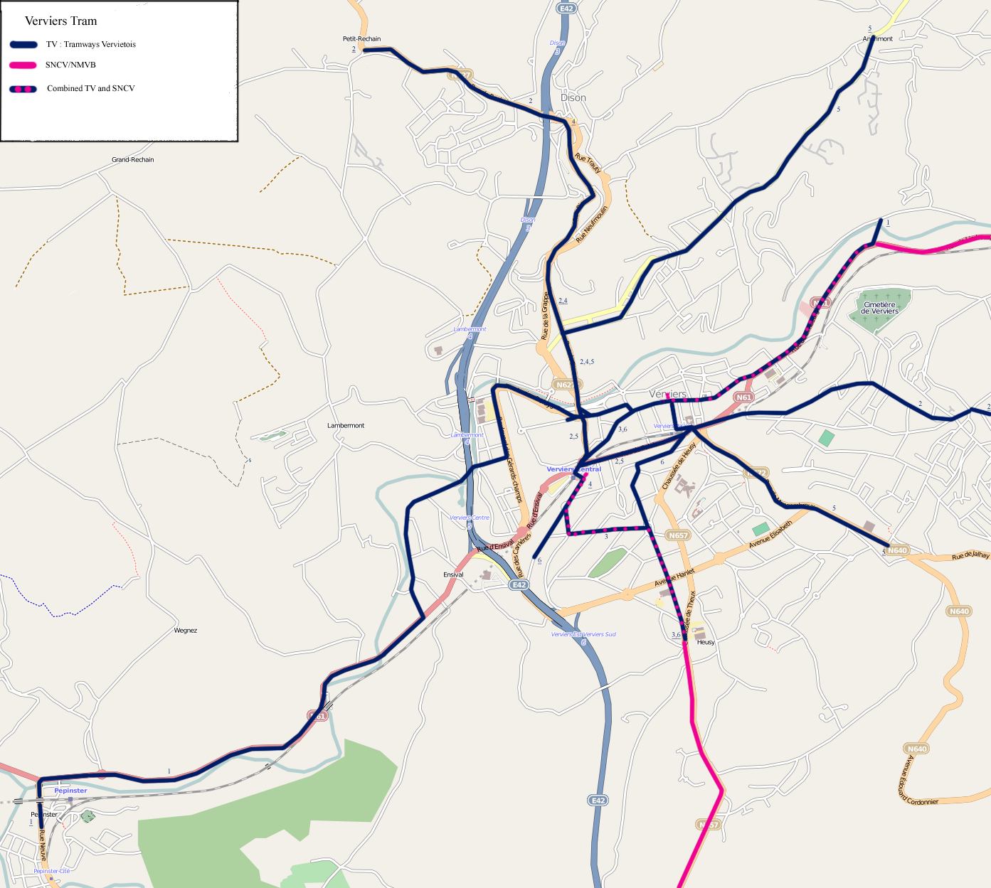 Tramway map of the local tramcompany TV (bleu) and the SNCV lines (red) in Verviers. Both are metergauge. Transfers between the two SNCV lines where made through the VT lines.